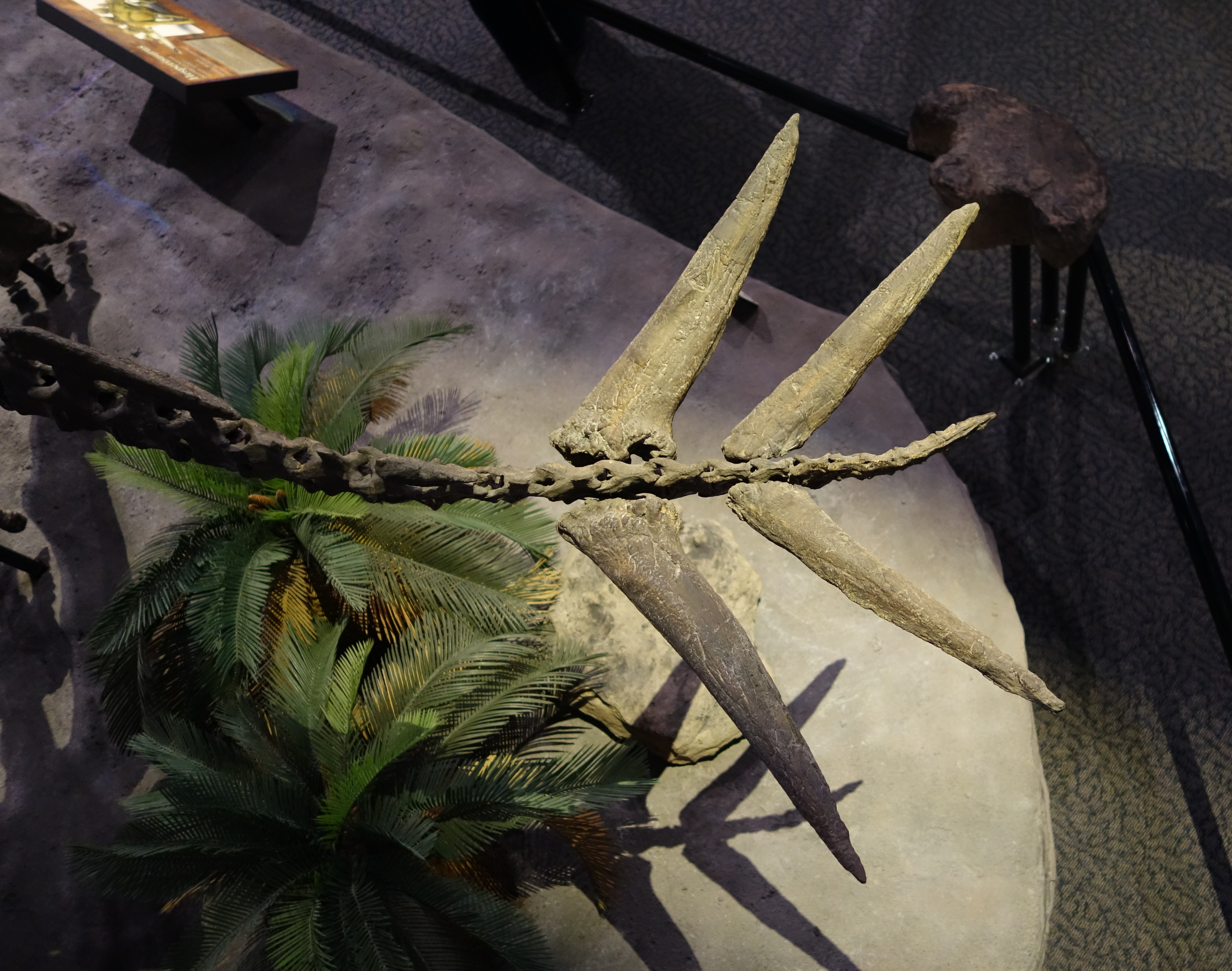 Hesperosaurus tail spikes (cast), on display at the Museum of Ancient Life, Utah.